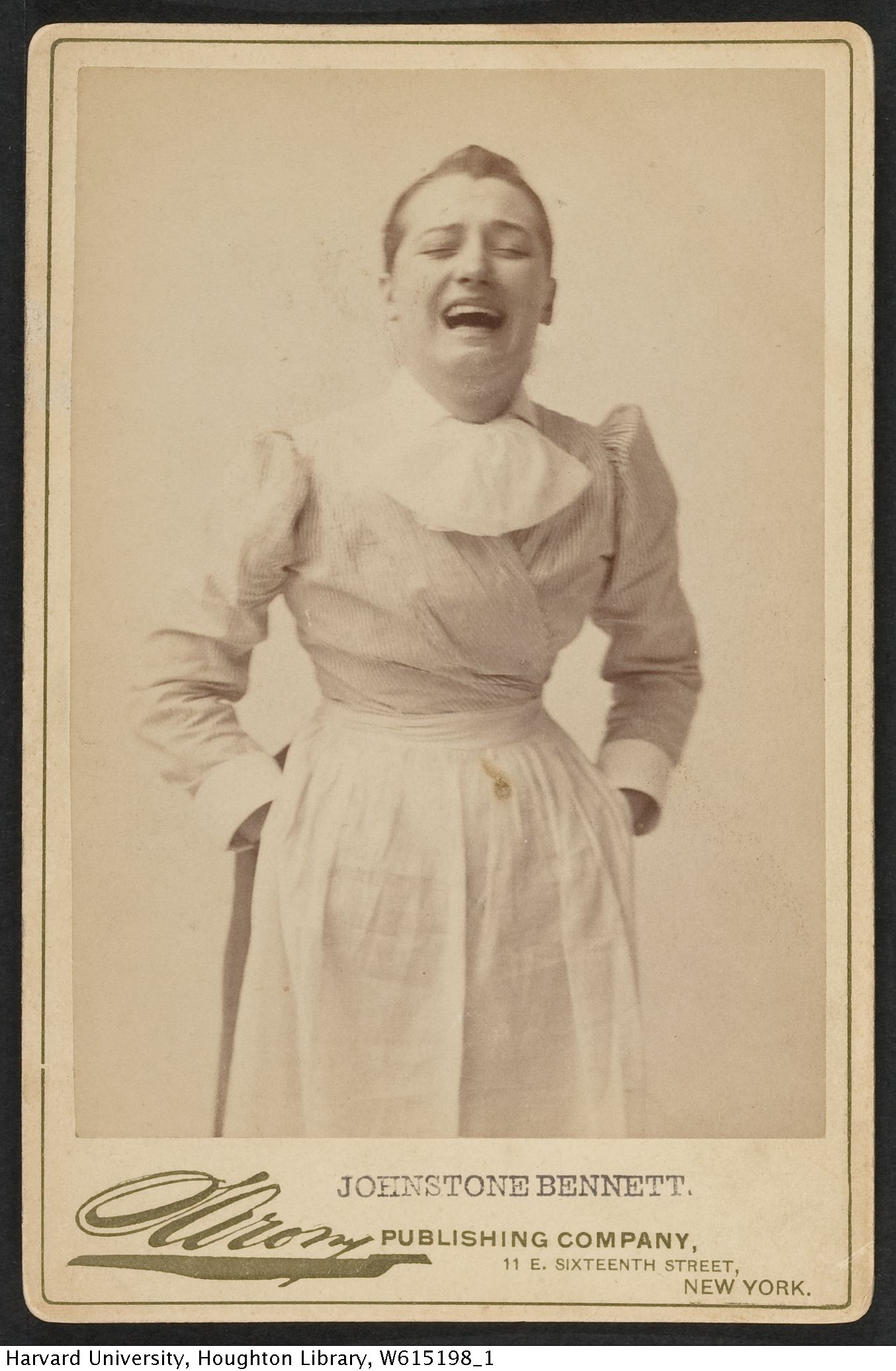 Cabinet card image of French/American actress Johnstone Bennett (d. 1906), laughing. TCS 1.2295, Harvard Theatre Collection, Harvard University